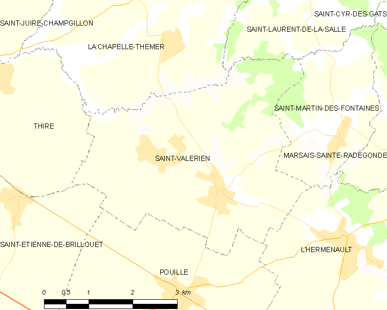 Map of French municipality Saint-Valérien